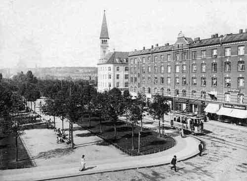 Rnghave Plads in Copenhagen, Denmark